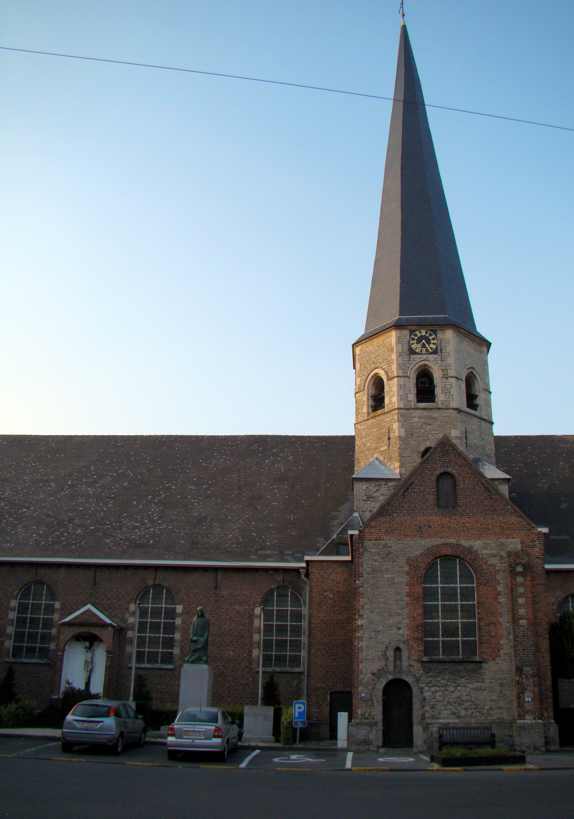 Sint-Columba church Deerlijk (West Flanders, Belgium)